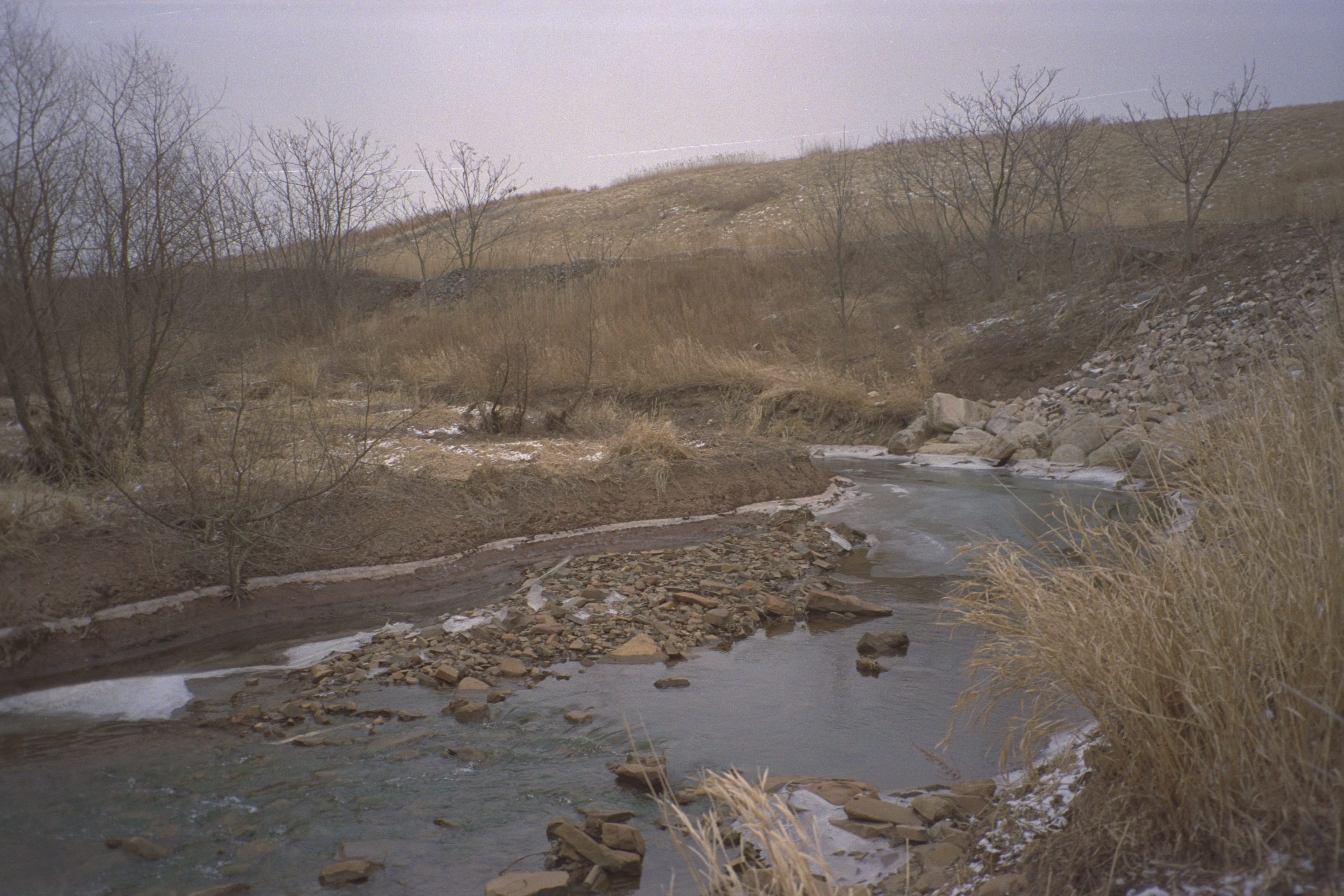 Picture of Kin Buc Landfill in Edison, NJ showing the heavily polluted Martin's Creek.